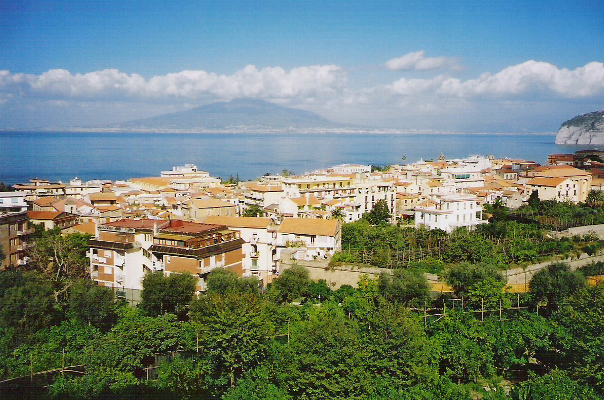 Sorrento (Campania, Italy) under watchful eye of Mount Vesuvius